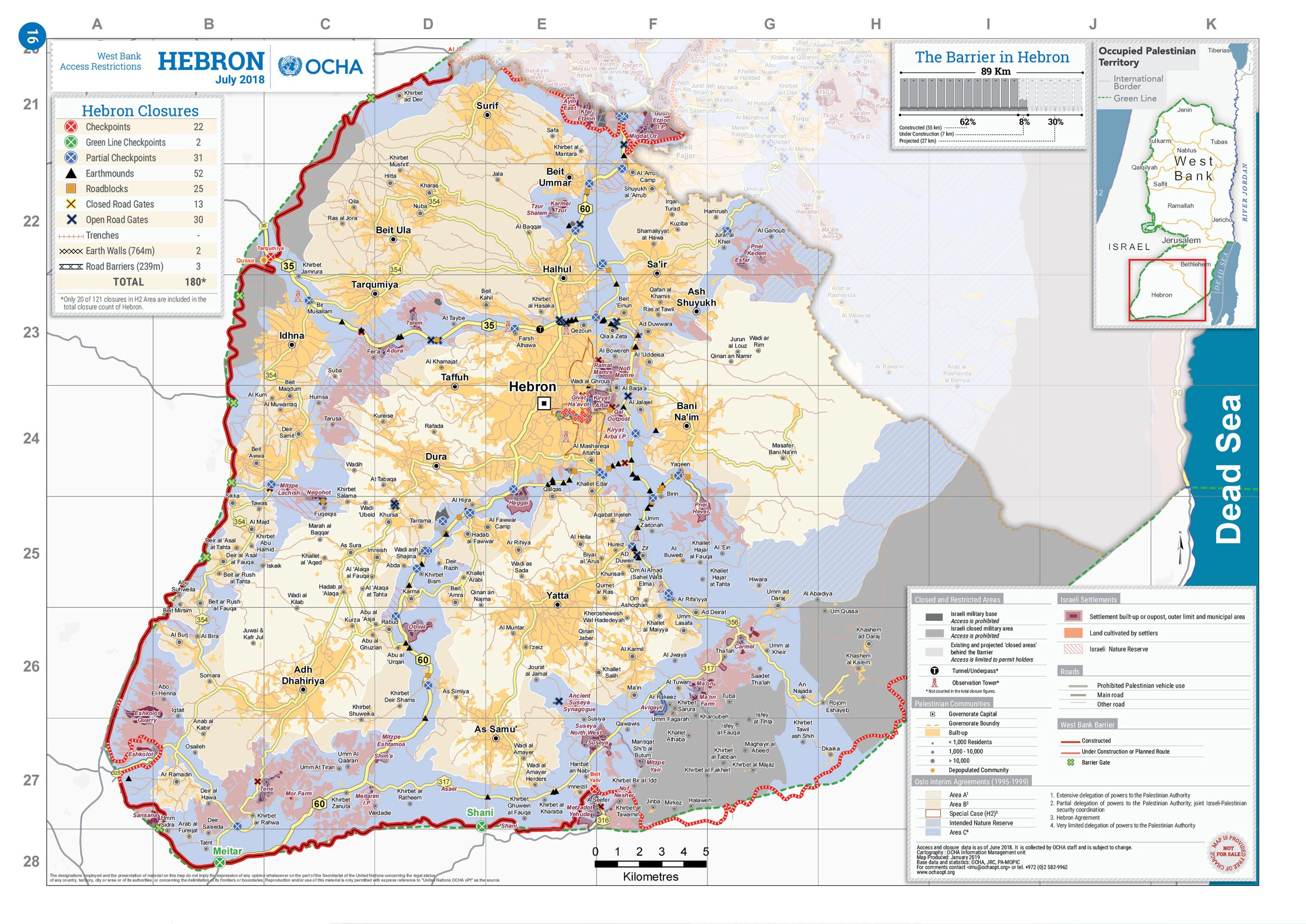 2018 OCHA OpT map